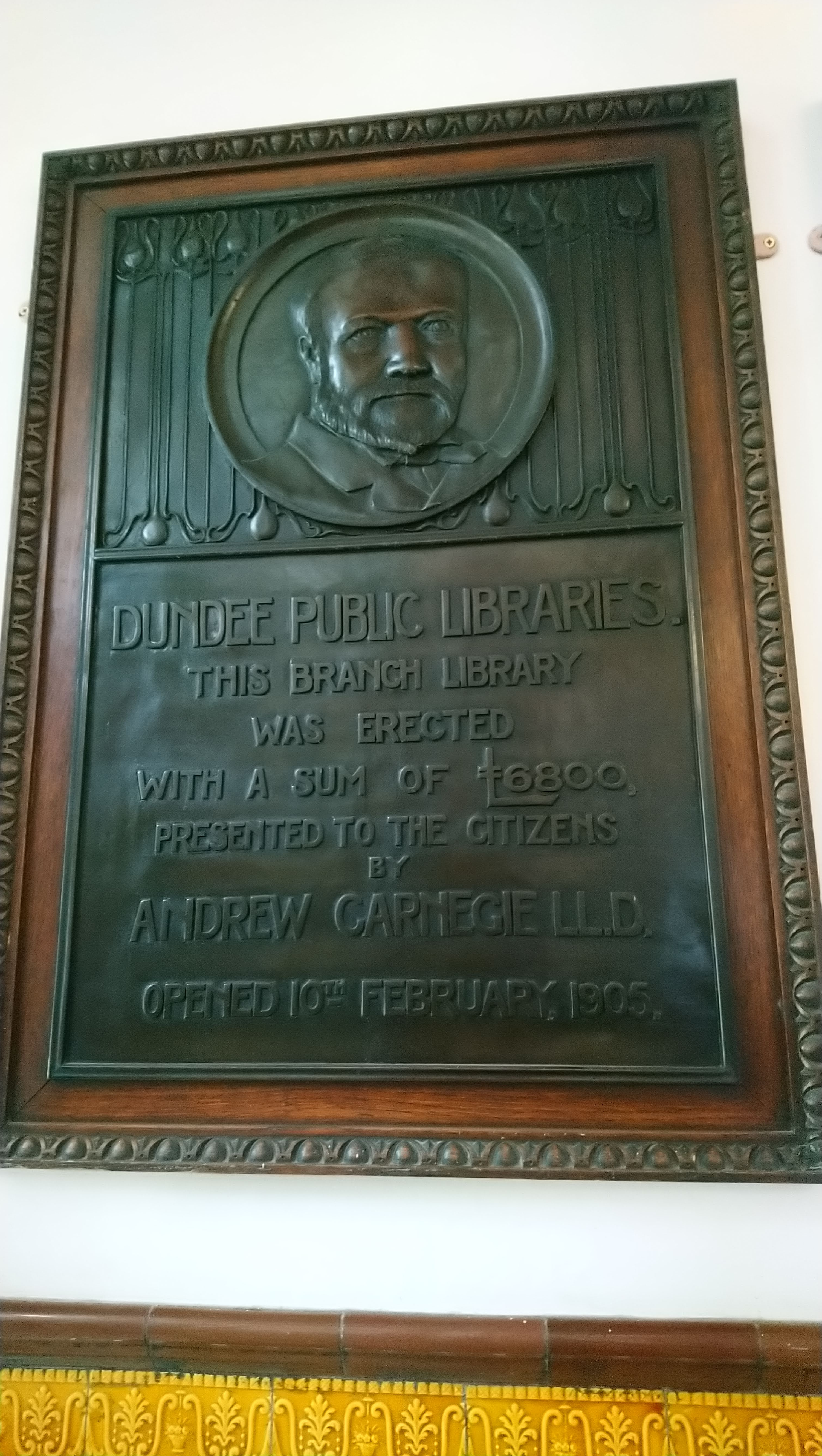 This plaque recognises the donation made by Andrew Carnegie to Dundee Public Libraries in order to build Arthurstone Library in the Stobswell area of Dundee.